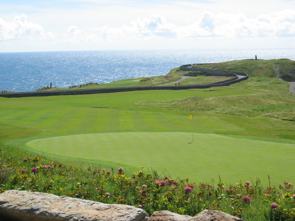 The 18th hole at the Old Head Golf Links on the Old Head of Kinsale